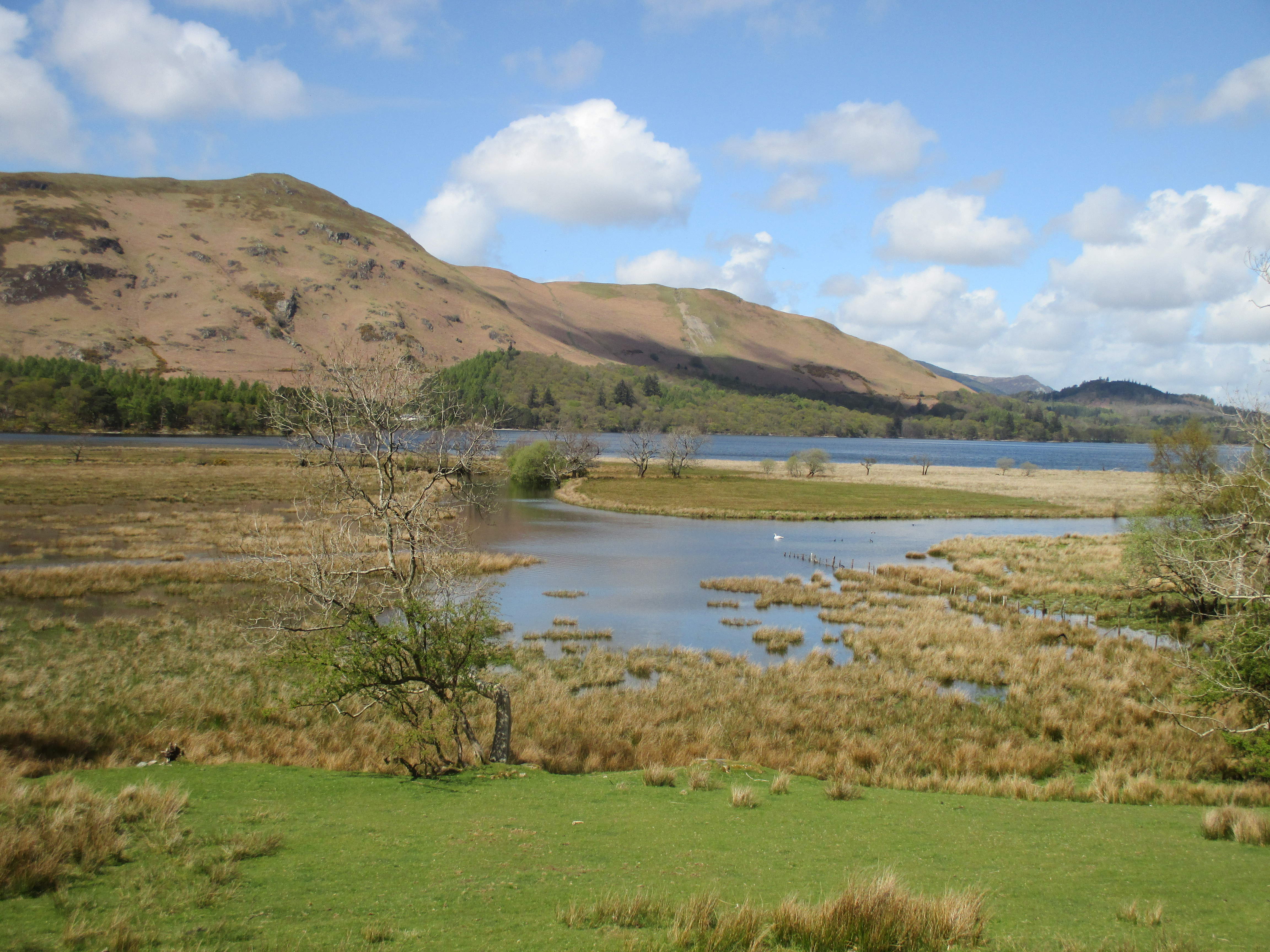 Catbells to the left, and Skelgill Bank ( a subsidiary peak) to the right. Photographed from the banks of the River Derwent near Lodore.